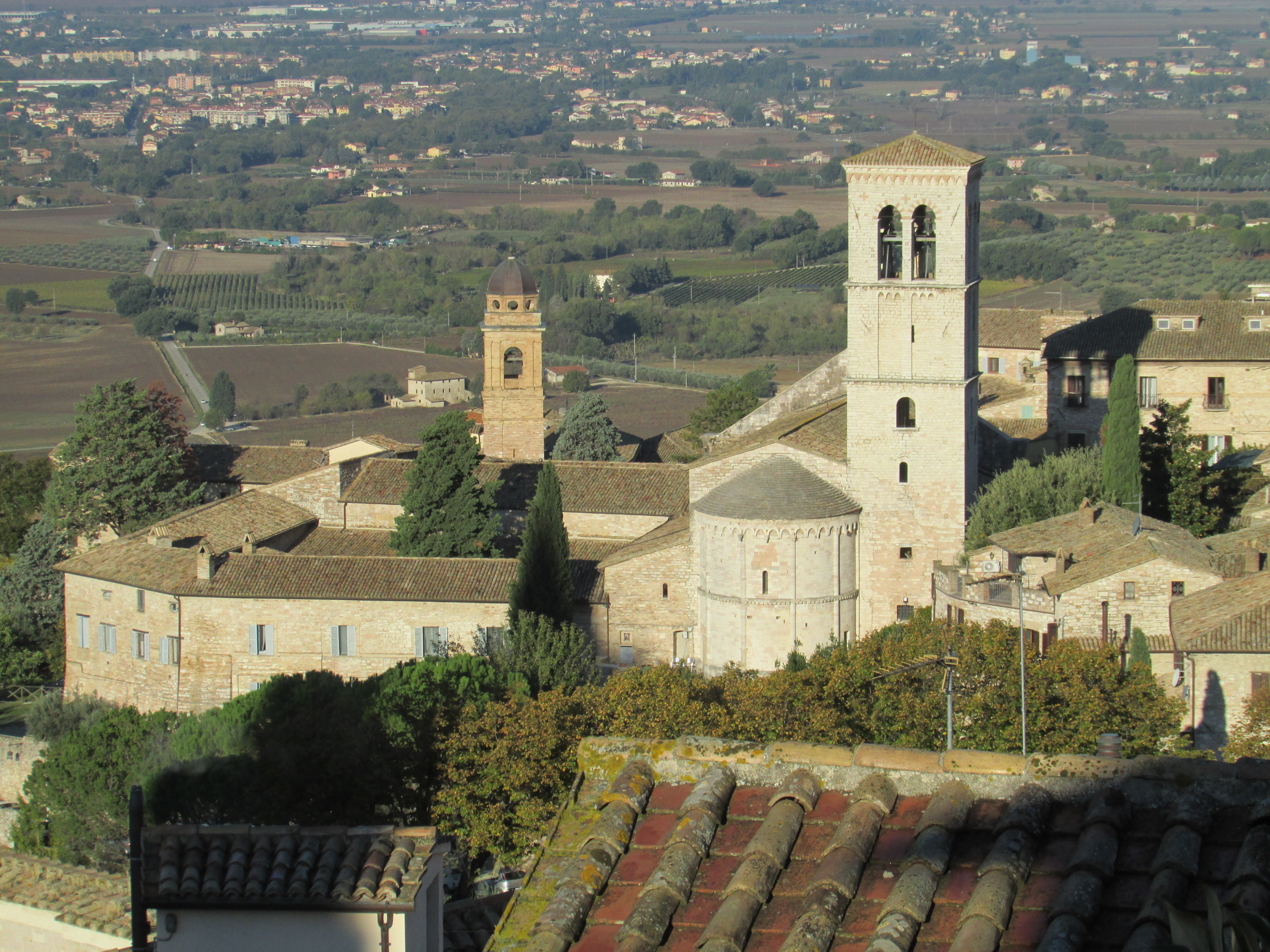 Bishops Palace & Santa Maria Maggiore in Assisi, Italy.